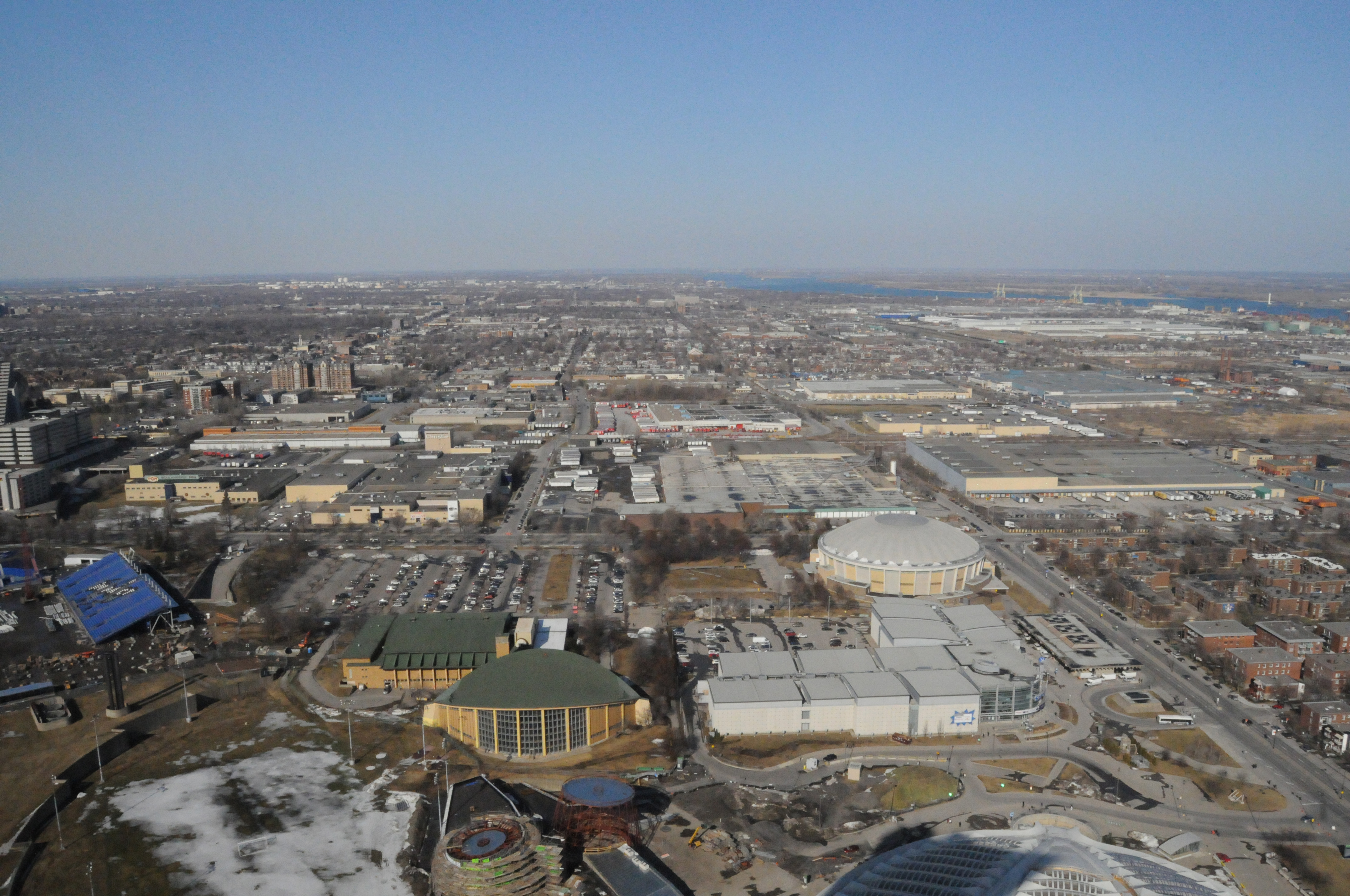 Maurice Richard Arena and area